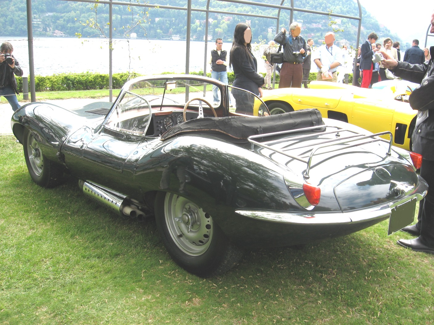 Subject: Jaguar XK-SS Date:April 27th, 2008 Event:Concorso d’Eleganza”Villa d’Este” 2008 Place/Country: Cernobbio (CO), Italy I release all rights in the public domain.